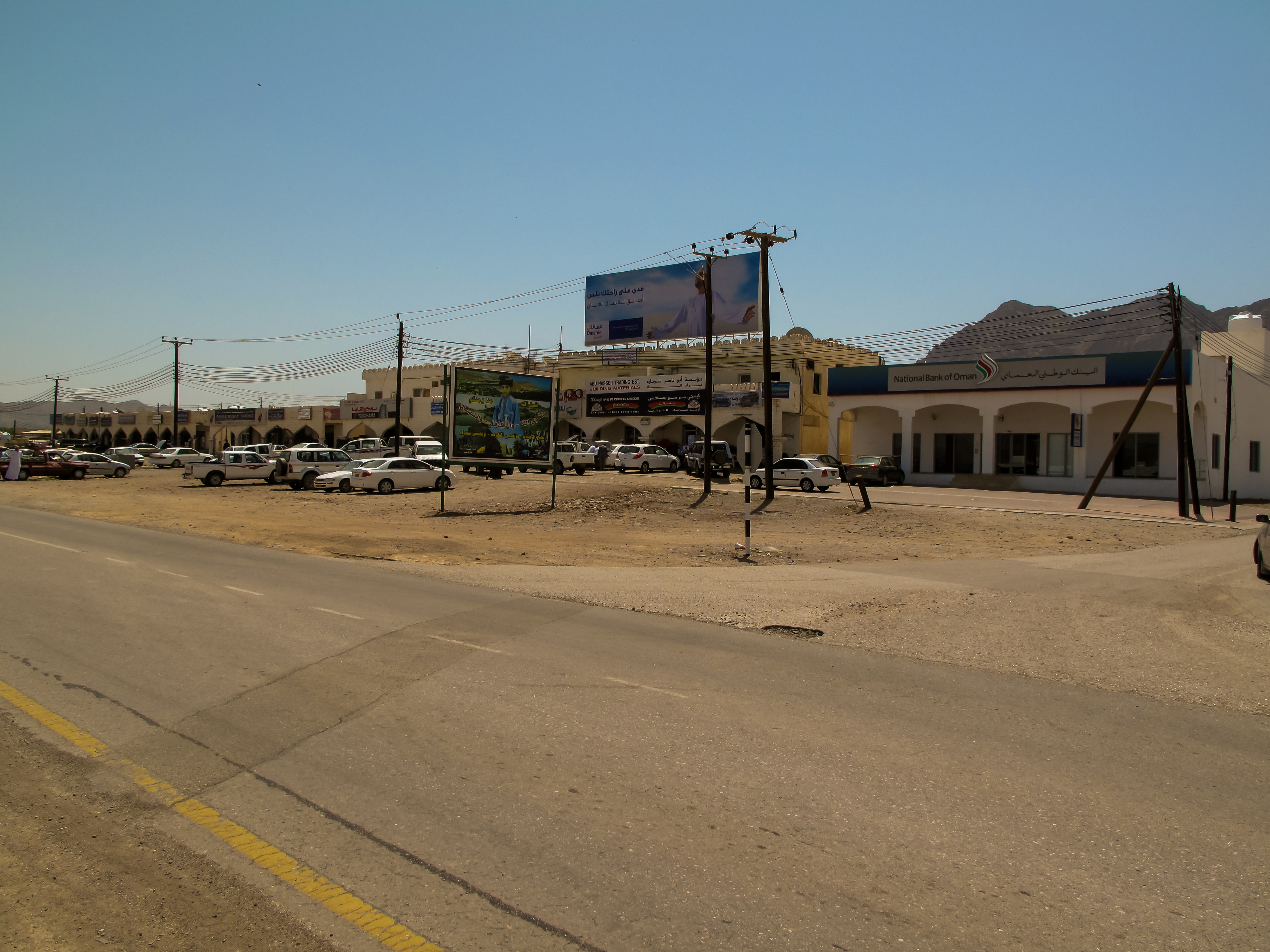 Town on the road to Nizwa